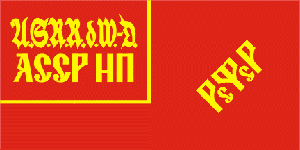 First flag of Volga German ASSR